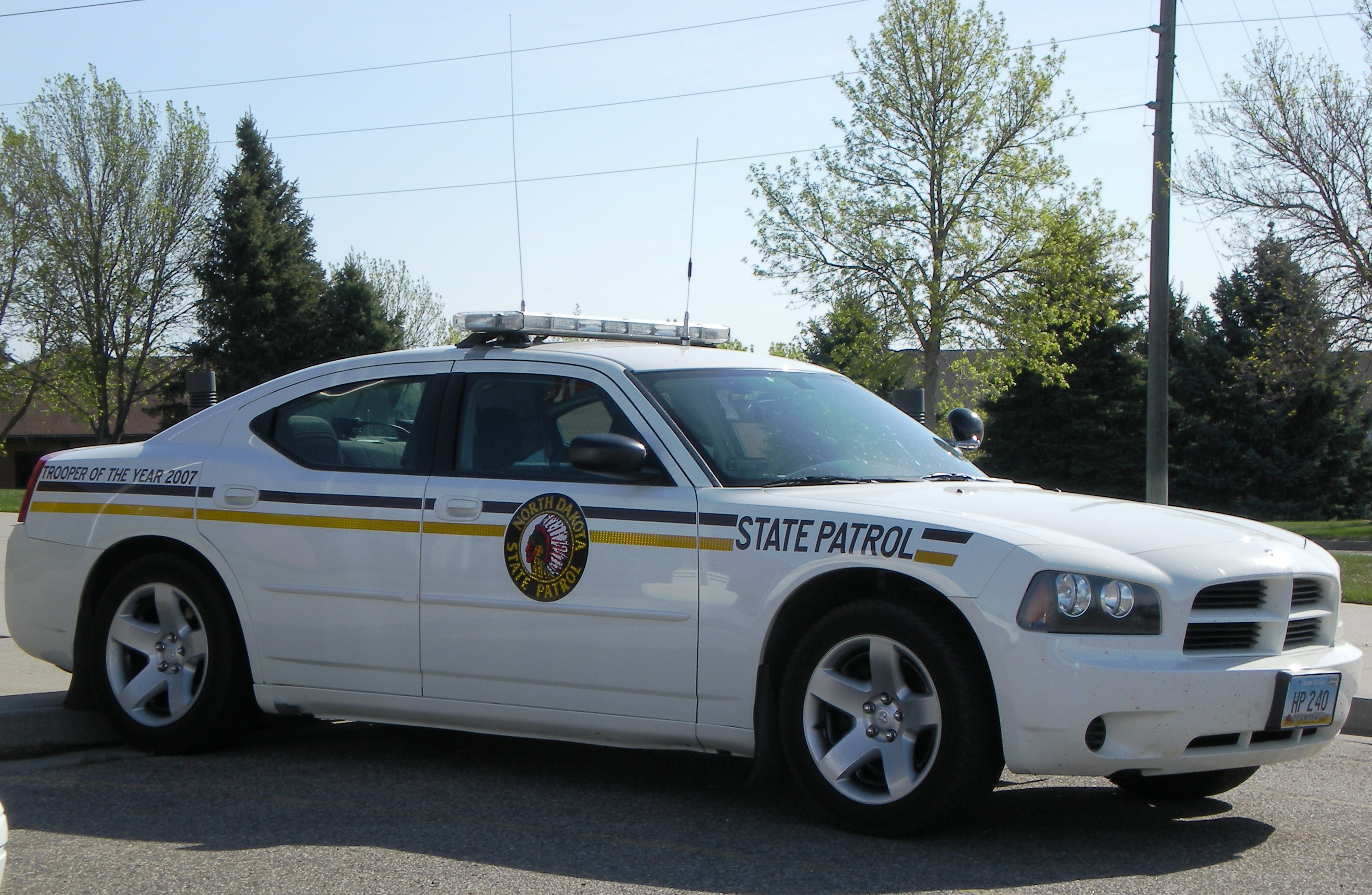 North Dakota Highway Patrol "Trooper of the Year 2007" Dodge Charger: This car was driven by Richard Michels, who Retired from the NDHP in July 2009.